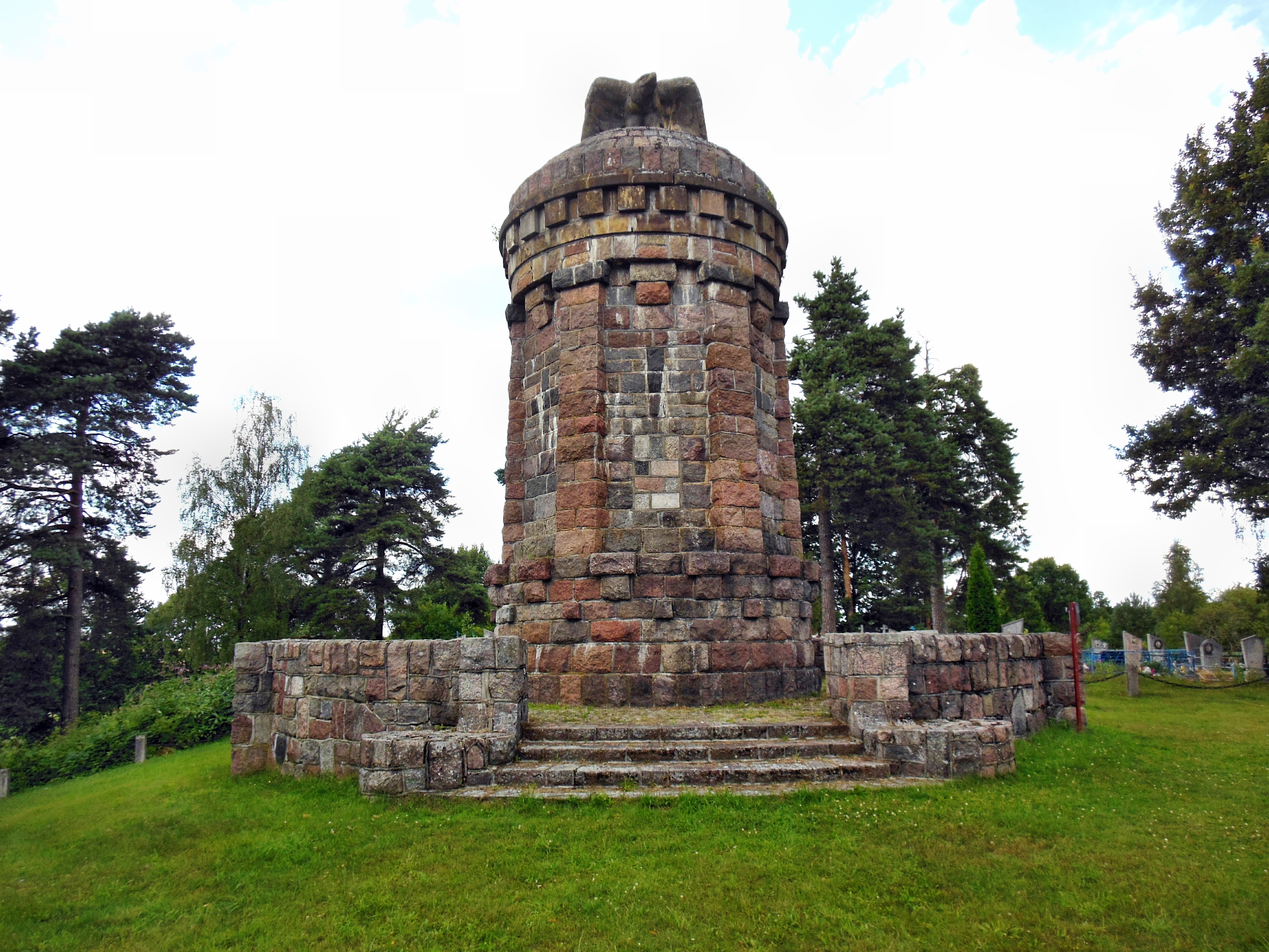 Беларуская (тарашкевіца): Капліца. в. Дзясятнікі This is a photo of Belarusian heritage monument. Reference number: 613Г000083 ( WLM)